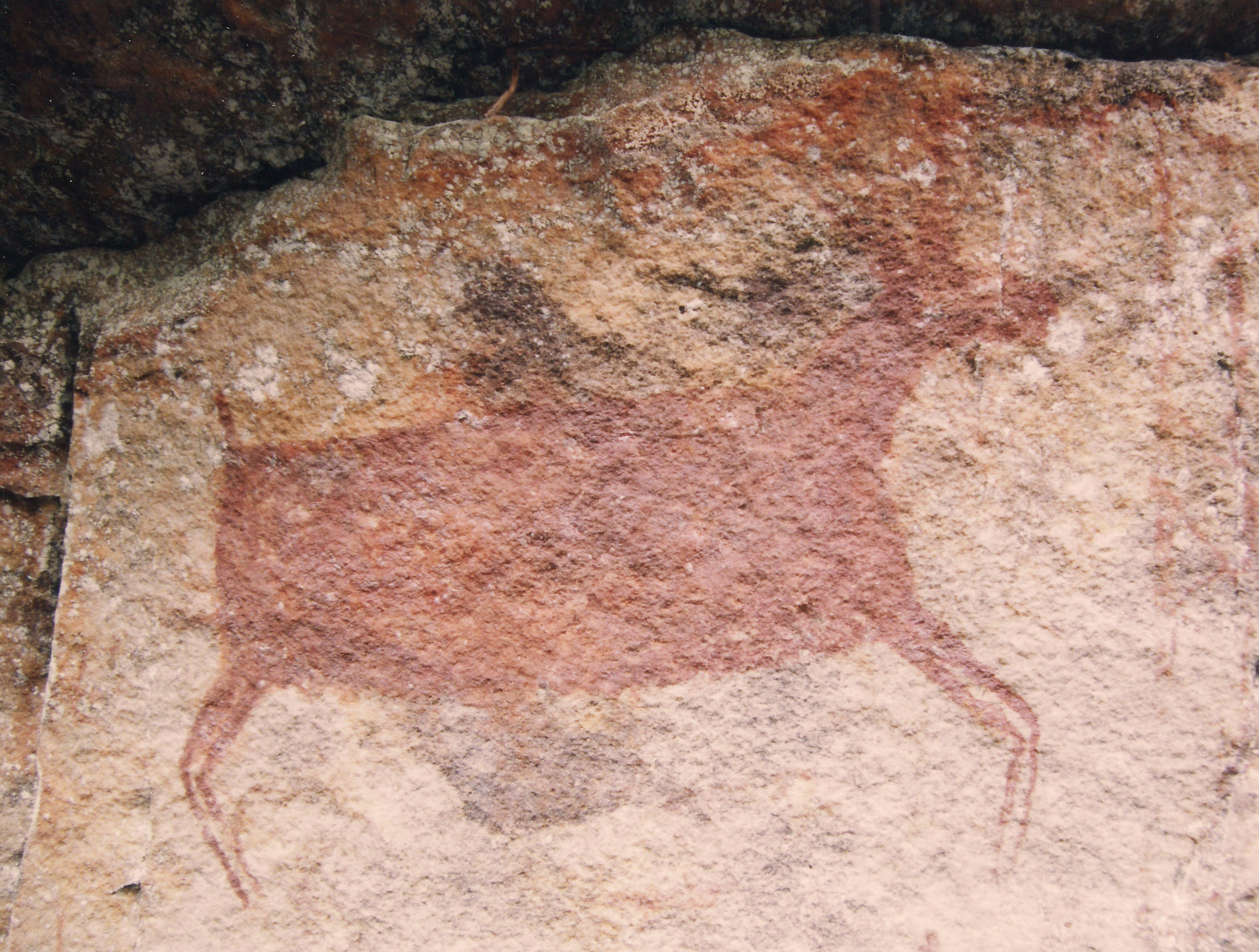 Petroglyphs in the Parque Nacional Natural Chiribiquete